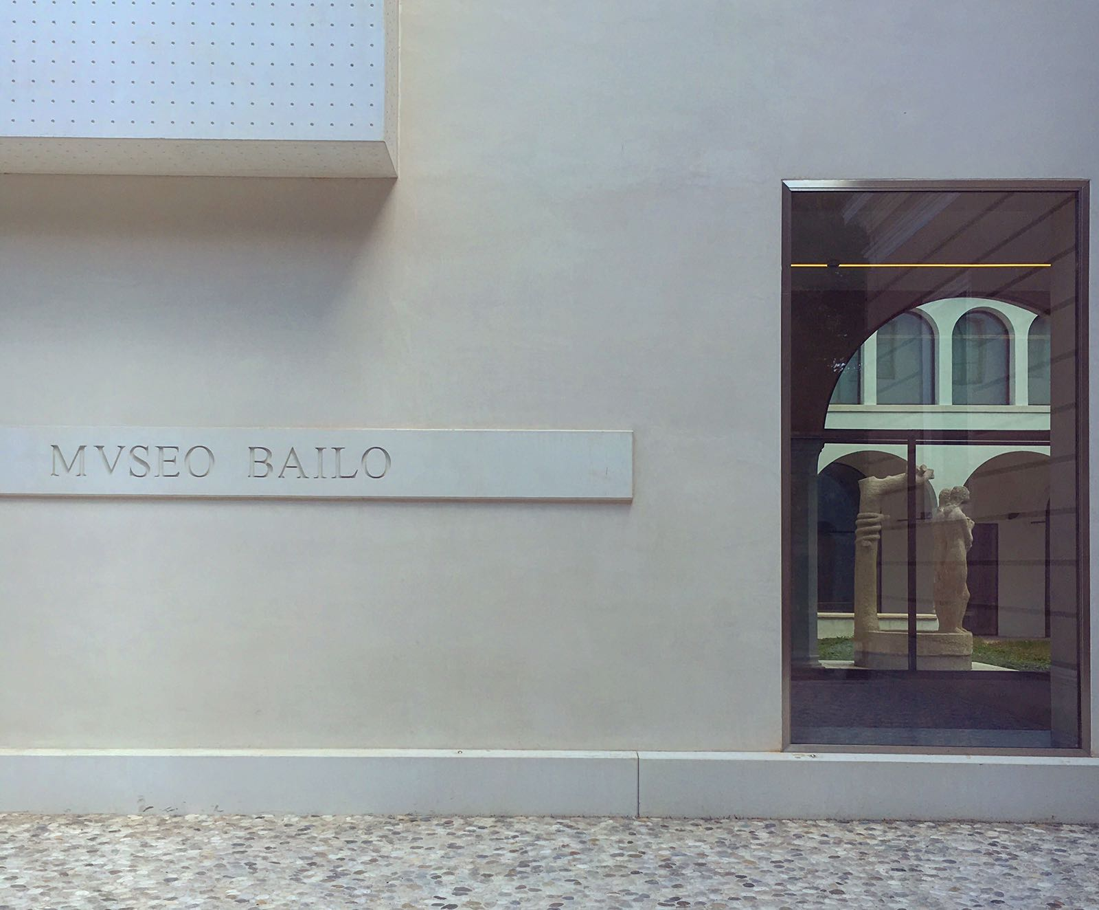 Museum "Luigi Bailo" in Treviso (Italy)